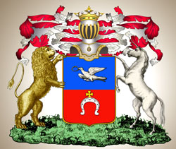 Coat of arms of the Zmiev (Zmeyev) family.